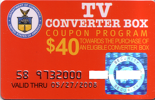 A $40 coupon in the form of a bank card given out by the Federal Communications Commission and the United States Department of Commerce in order to allow analog television viewers to buy a digital converter box at a subsidized discount.